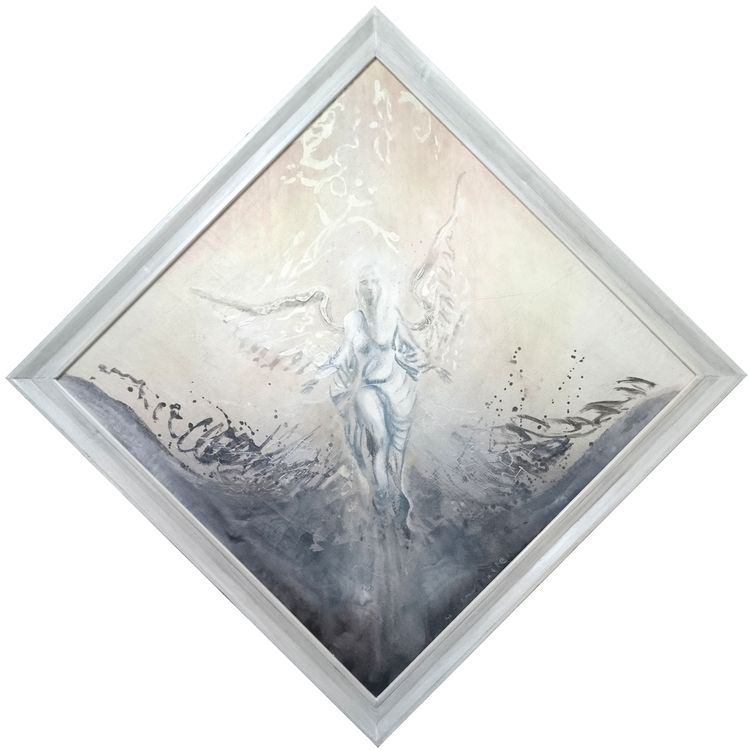 "Forening" 2016 acrylic 73x73cm - Painting by the norwegian visual artist Halvard Hatlen (1962)